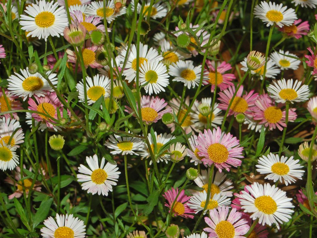 Erigeron karvinskianus - Genova, Italy